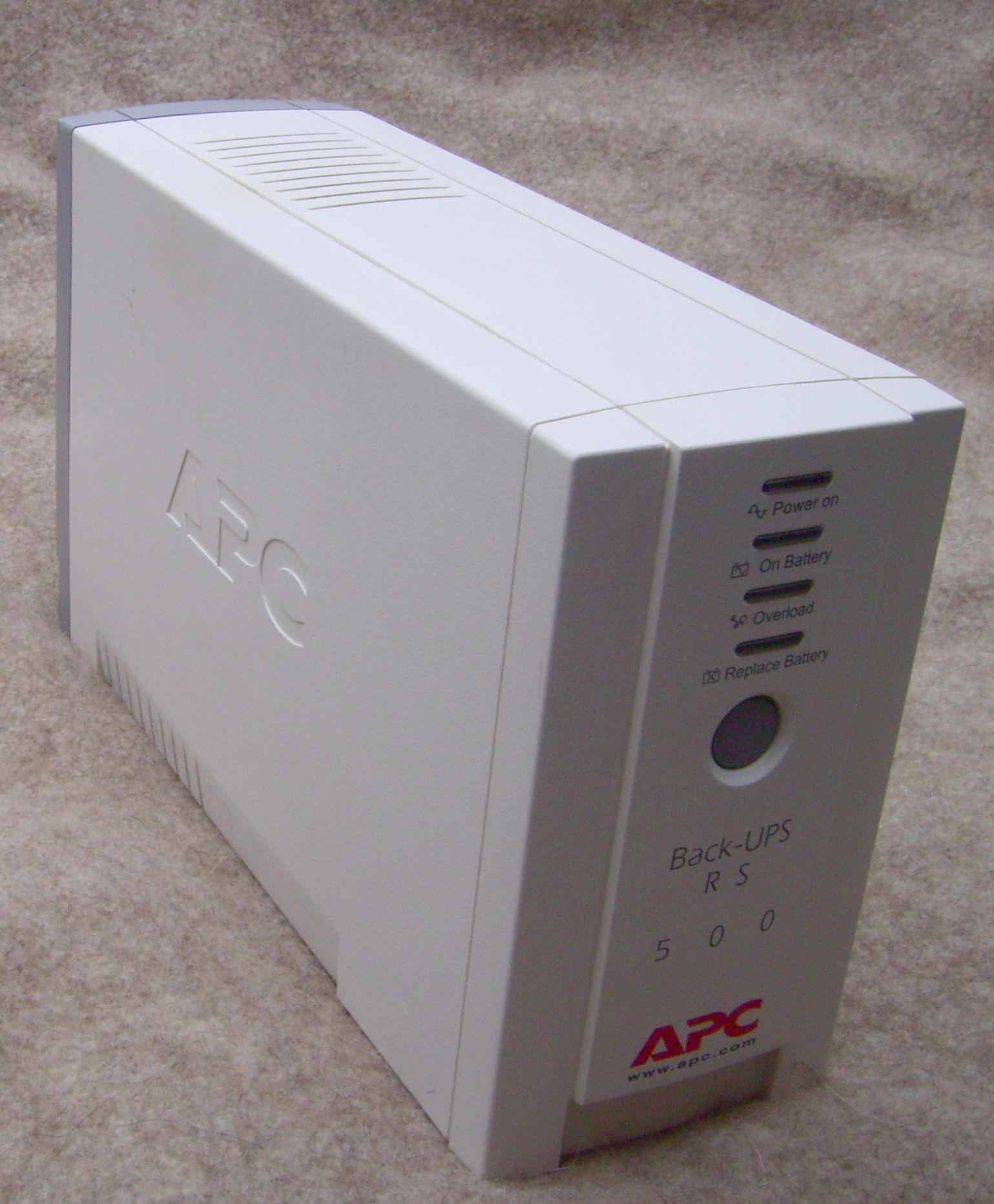 Uninterruptible power supply (UPS) by American Power Conversion (APC). Model Back-UPS RS 500. APC part number BR500I, 300 Watts / 500 VA, Input 230V / Output 230V. Control panel with LED status display On Line / On Battery / Replace Battery / Overload indicators. Alarm when on battery / distinctive low battery alarm / overload continuous tone alarm